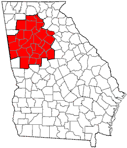 Map of the Atlanta metropolitan area in Georgia.